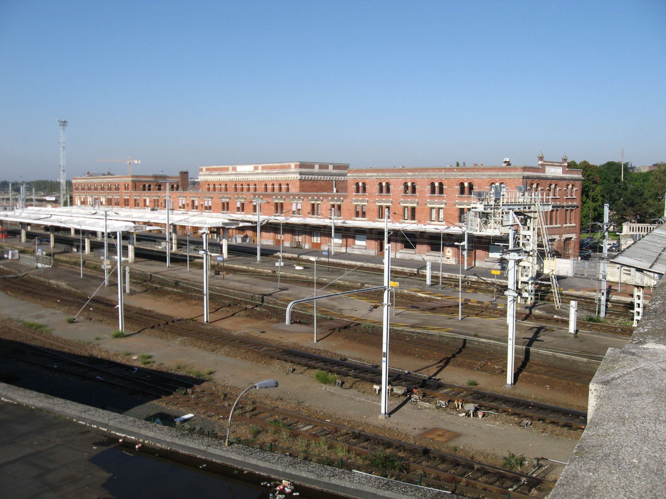 Overview of the Saint-Quentin station